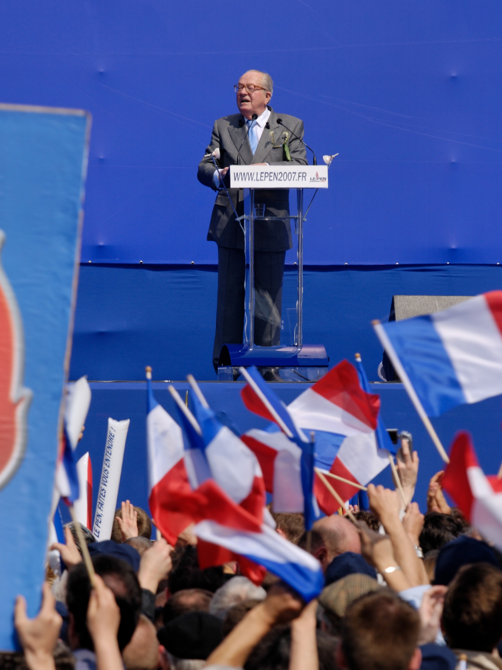 Jean-Marie Le Pen speaking at his National Front party's annual tribute to Joan of Arc in Paris.